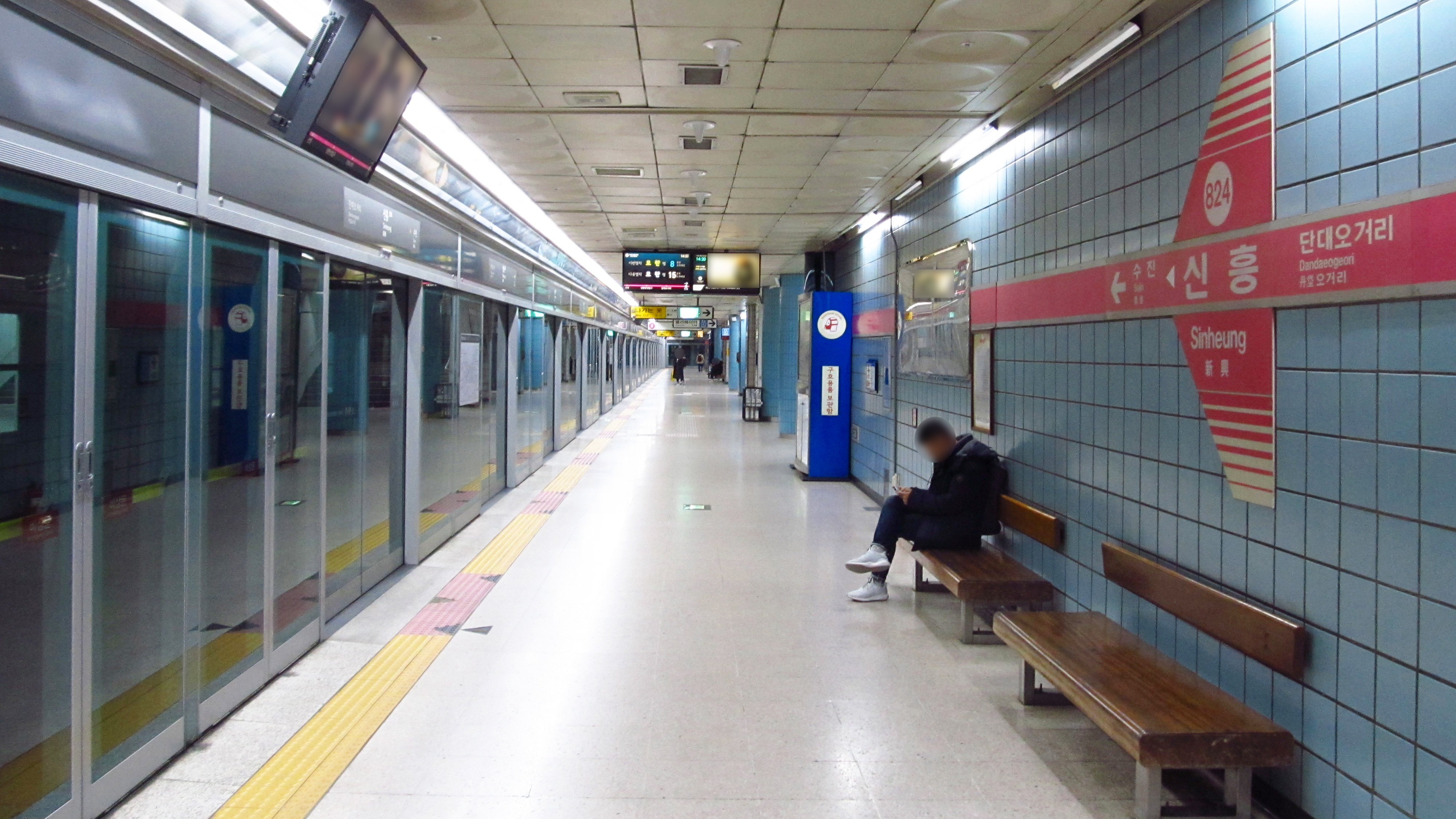 The platform at Sinheung Station on Seoul Subway Line 8 in Seongnam city, Gyeonggi-do(province), Republic of Korea(South Korea)